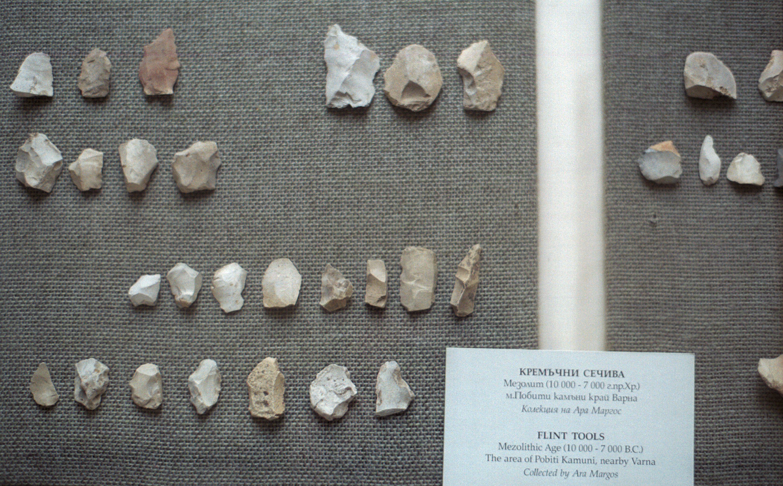 Flint tools, Mesolithic, 10th to 8th millennium BC. From Pobiti Kameni nearby Varna, collected by Ara Margos. Varna Archaeological Museum.